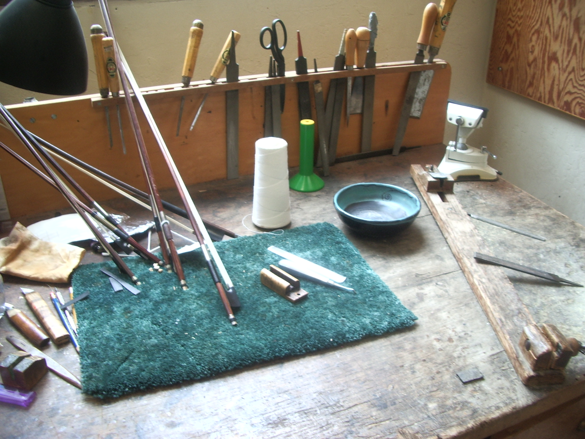 A bow maker workshop in Cremona, Italy.